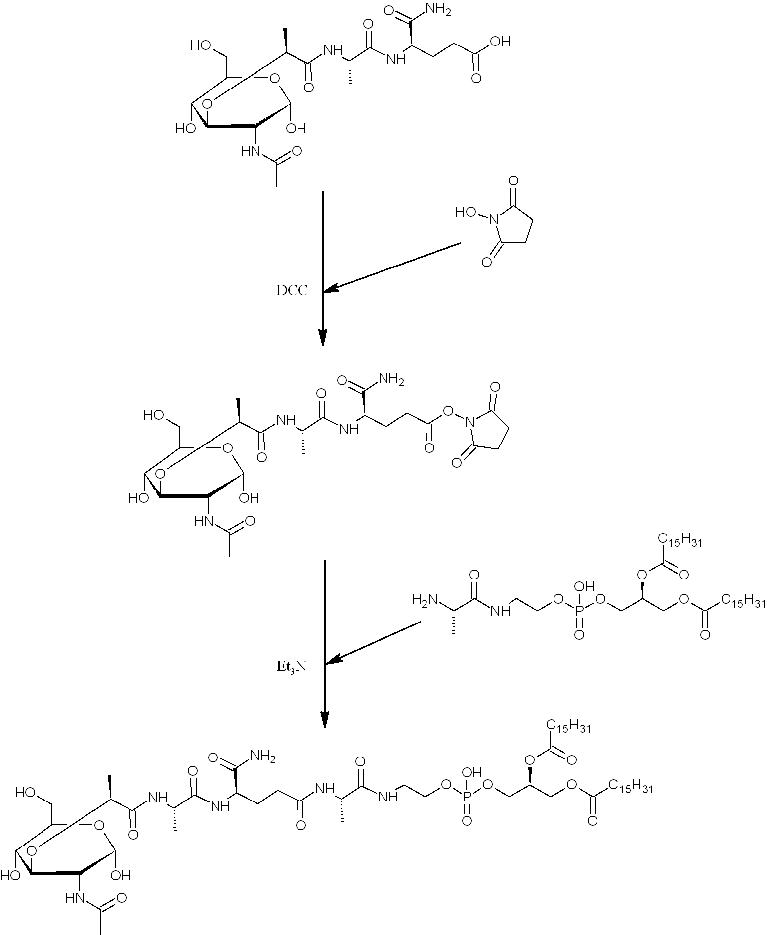 Mifamurtide synthesis - different method